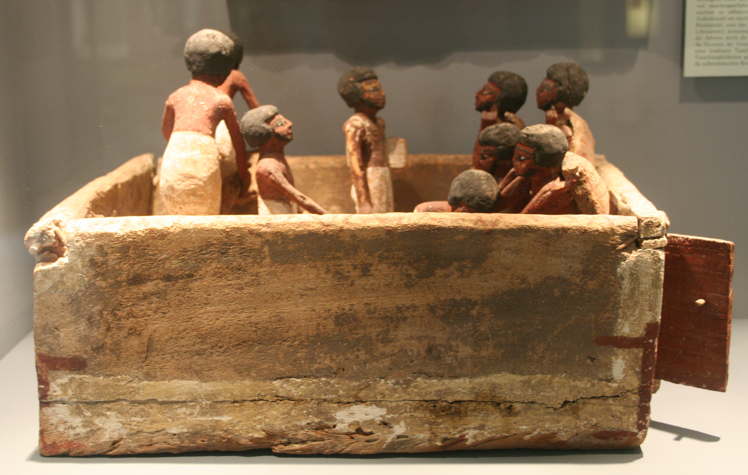 Model of a granary, from Asiut, Egypt. 11th dynasty of Egypt. Roemer und Pelizaeus Museum (IN 1689).